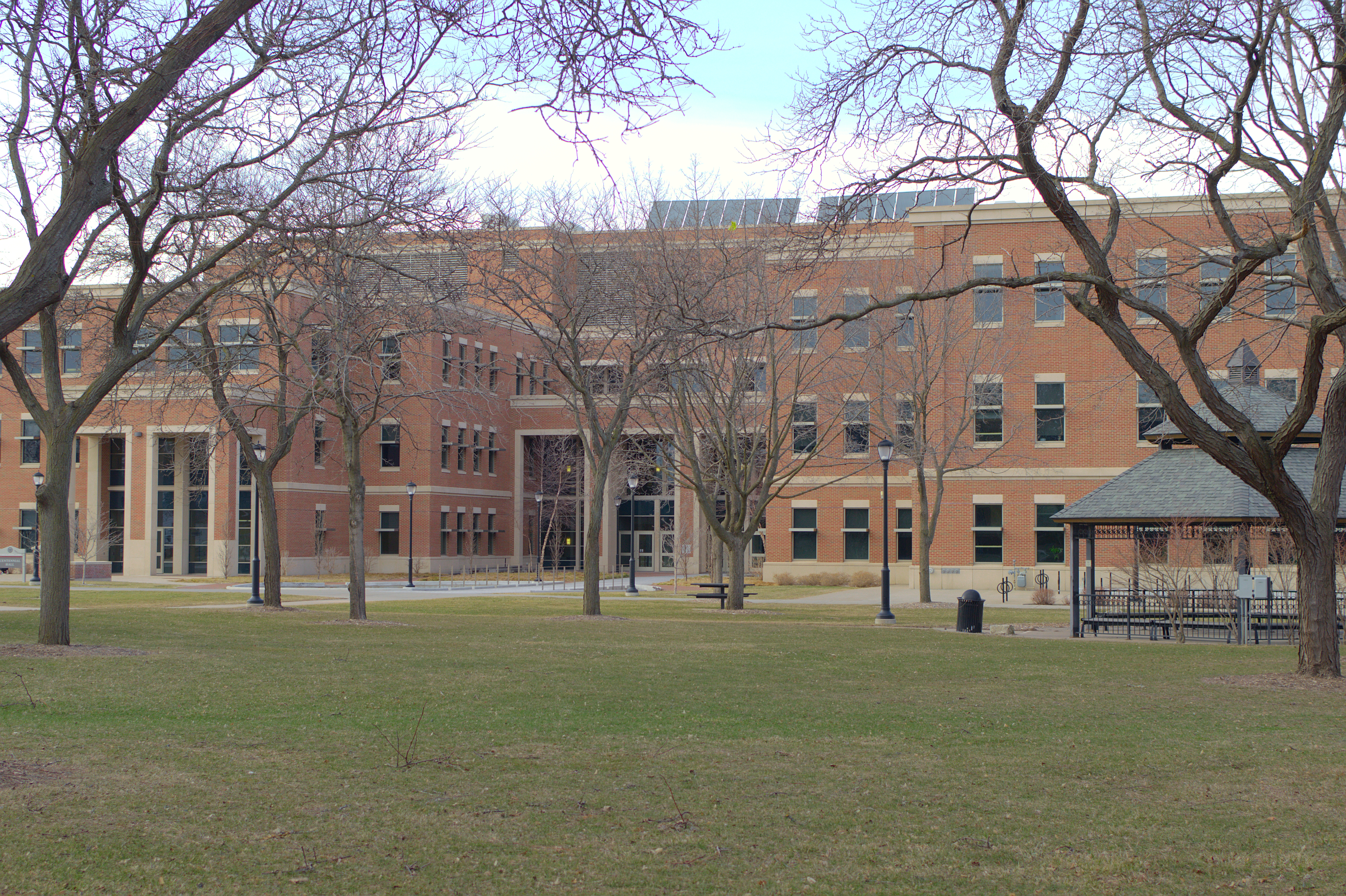 Centennial Hall viewed from Wing Technology Center.